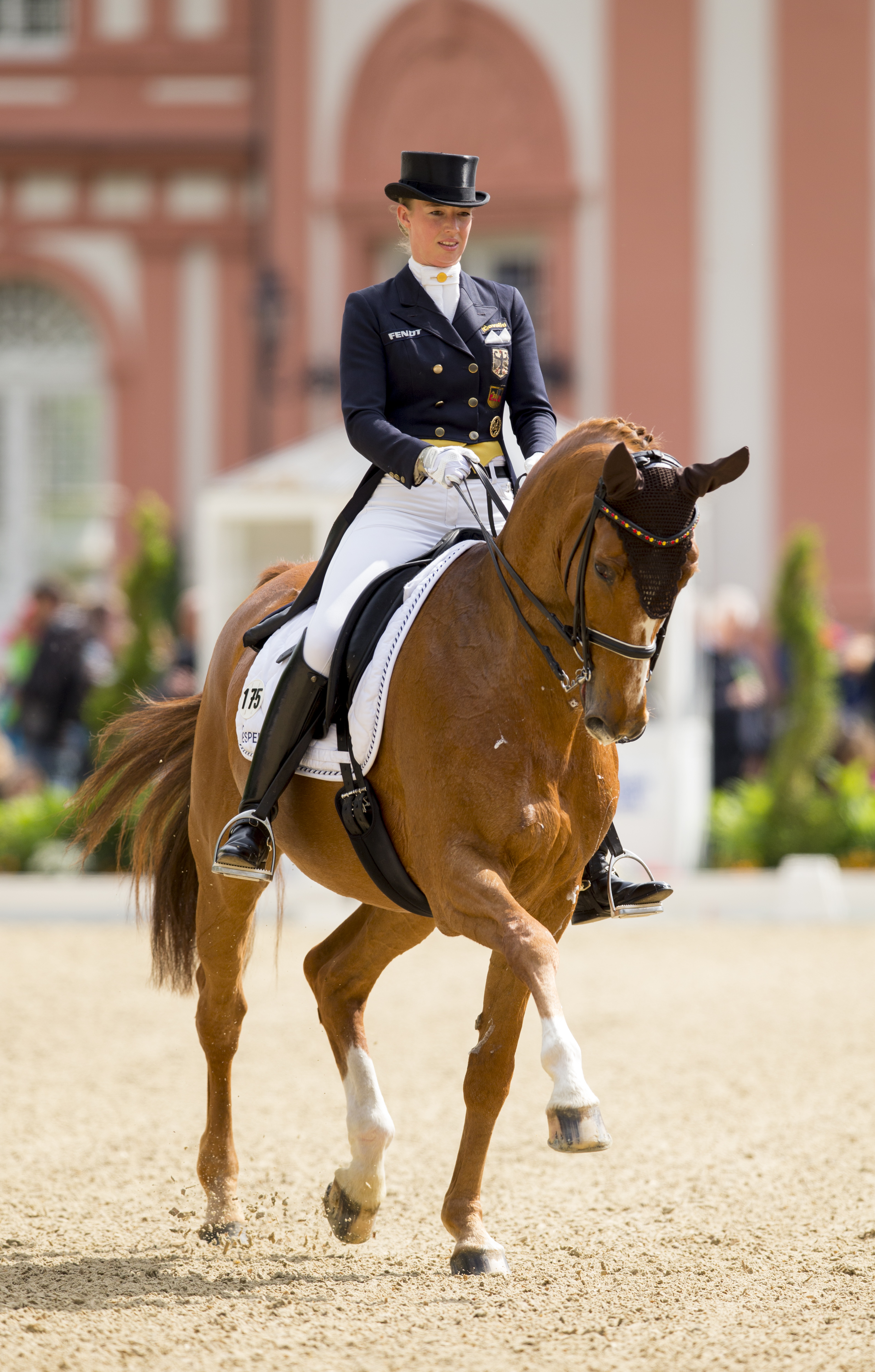 WDM Grand Prix (for Freestyle) winners Fabienne Lütkemeier and Qui Vincit Dynamis. (Photo: WRFC/Lafrentz)